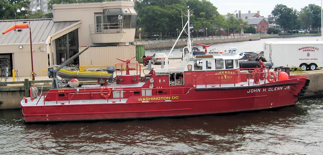 A District of Columbia Fire and Emergency Medical Services Department fireboat "John H. Glenn, Jr." at its dock on the Potomac River in Washington, D.C.